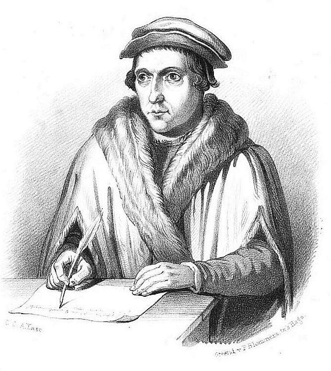 Image from book in the public domain.